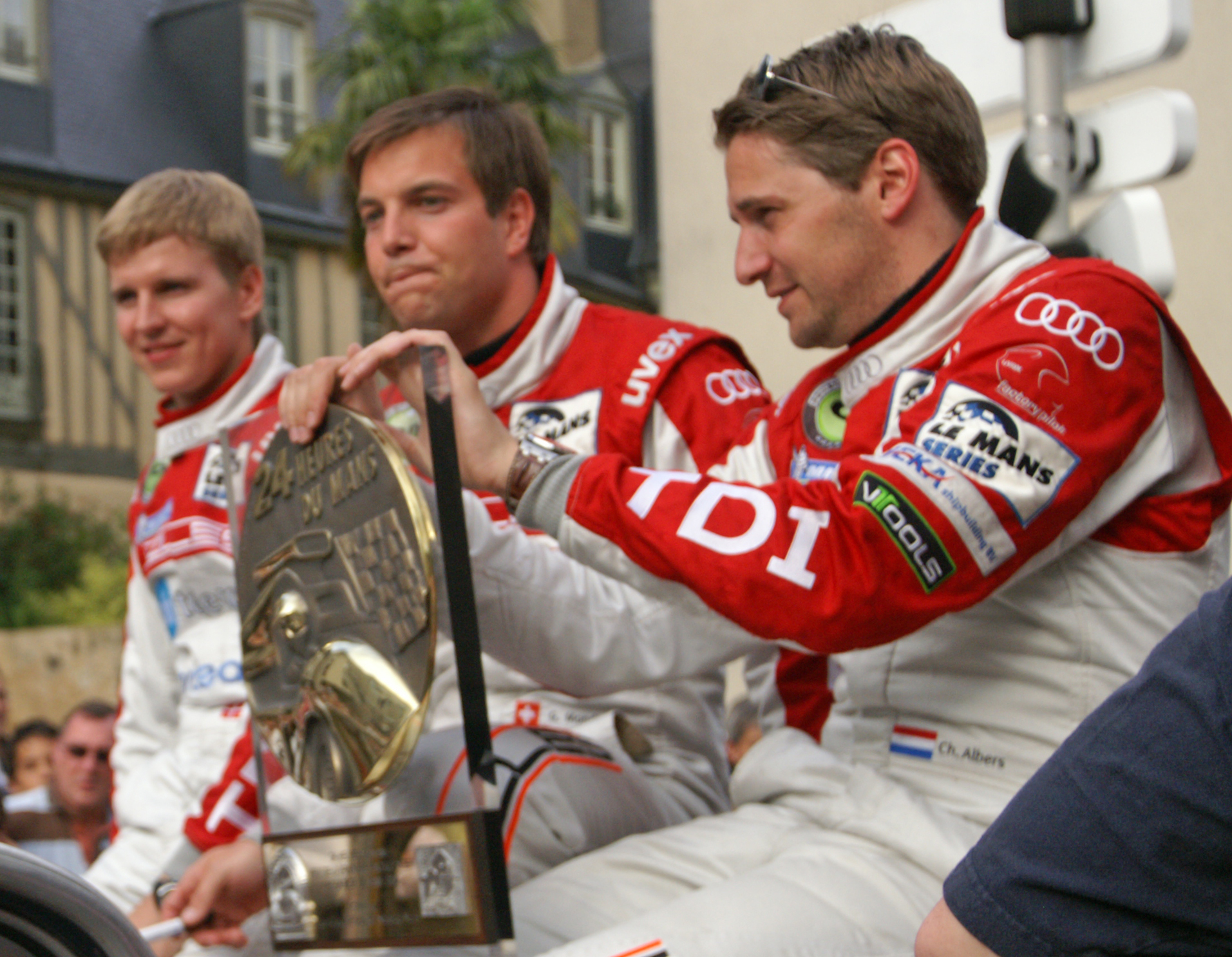 Drivers of #15 Audi R10 TDi for Kolles (right to left: Christijan Albers , Giorgio Mondini and Christian Bakkerud) at Drivers' Parade Le Mans 2009.